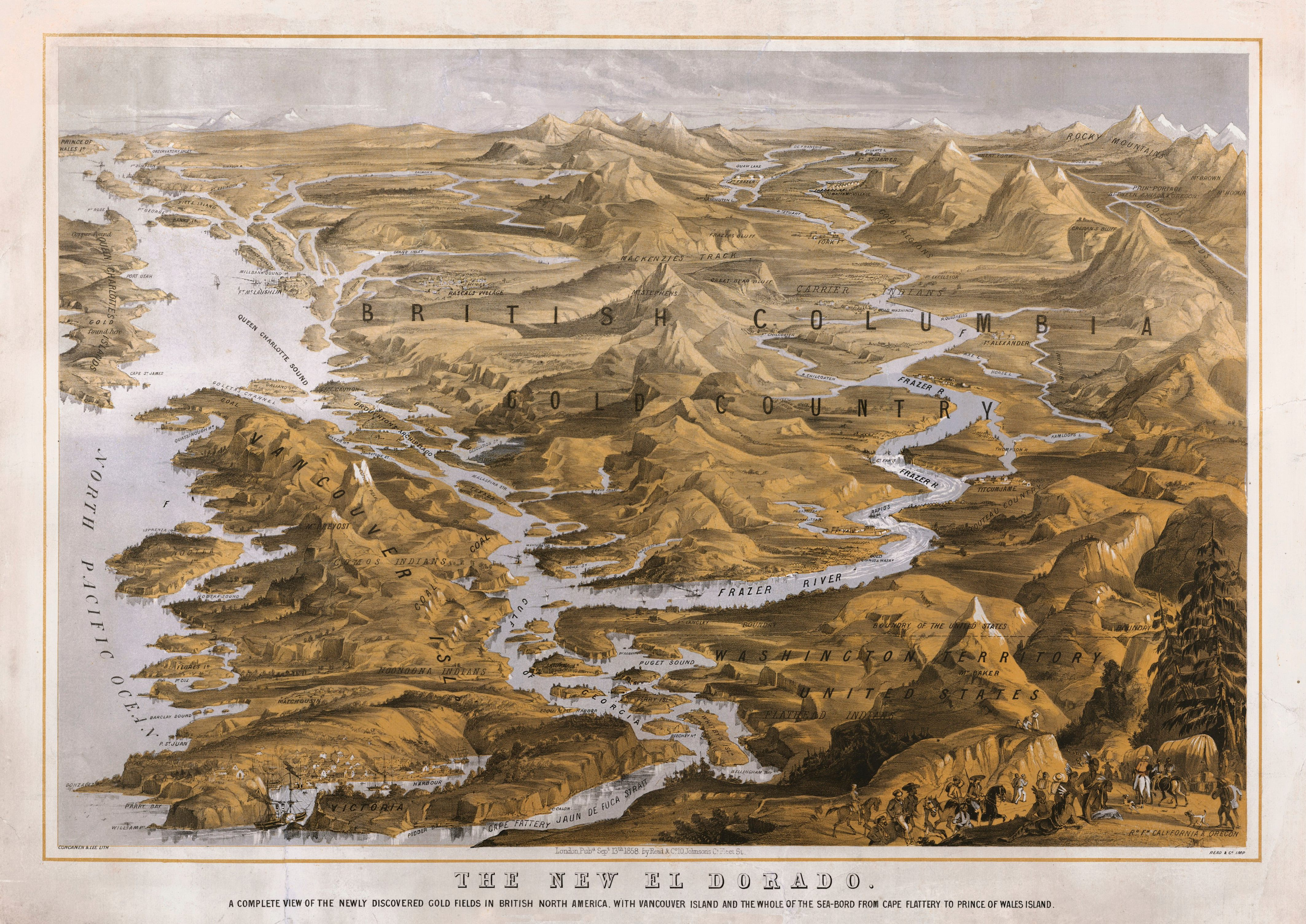 The New Eldorado - A Complete View of the Newly Discovered Goldfields in BNA with Vancouver Island and the Whole of the Seaboard from Cape Flattery to Prince of Wales Island